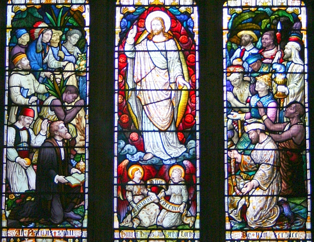 Detail - Jubilee Window, Malvern Priory The middle section of Queen Victoria's Golden Jubilee Window. Shows fifteen males apparently representing all races in the Victorian world.